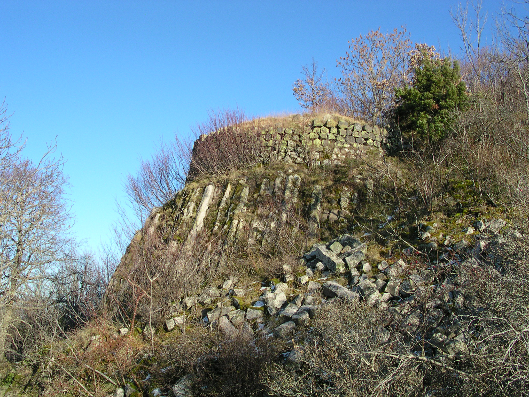 Remaining of the Montredon castle on the summit ot Mont Redon near the village of Ponteix, in the church (Commune of Aydat, Puy-de-Dôme, France)